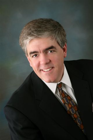 Illnois politician Dirk Beveridge